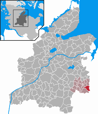 Locator maps of municipalities in Schleswig-Holstein - District Rendsburg-Eckernförde